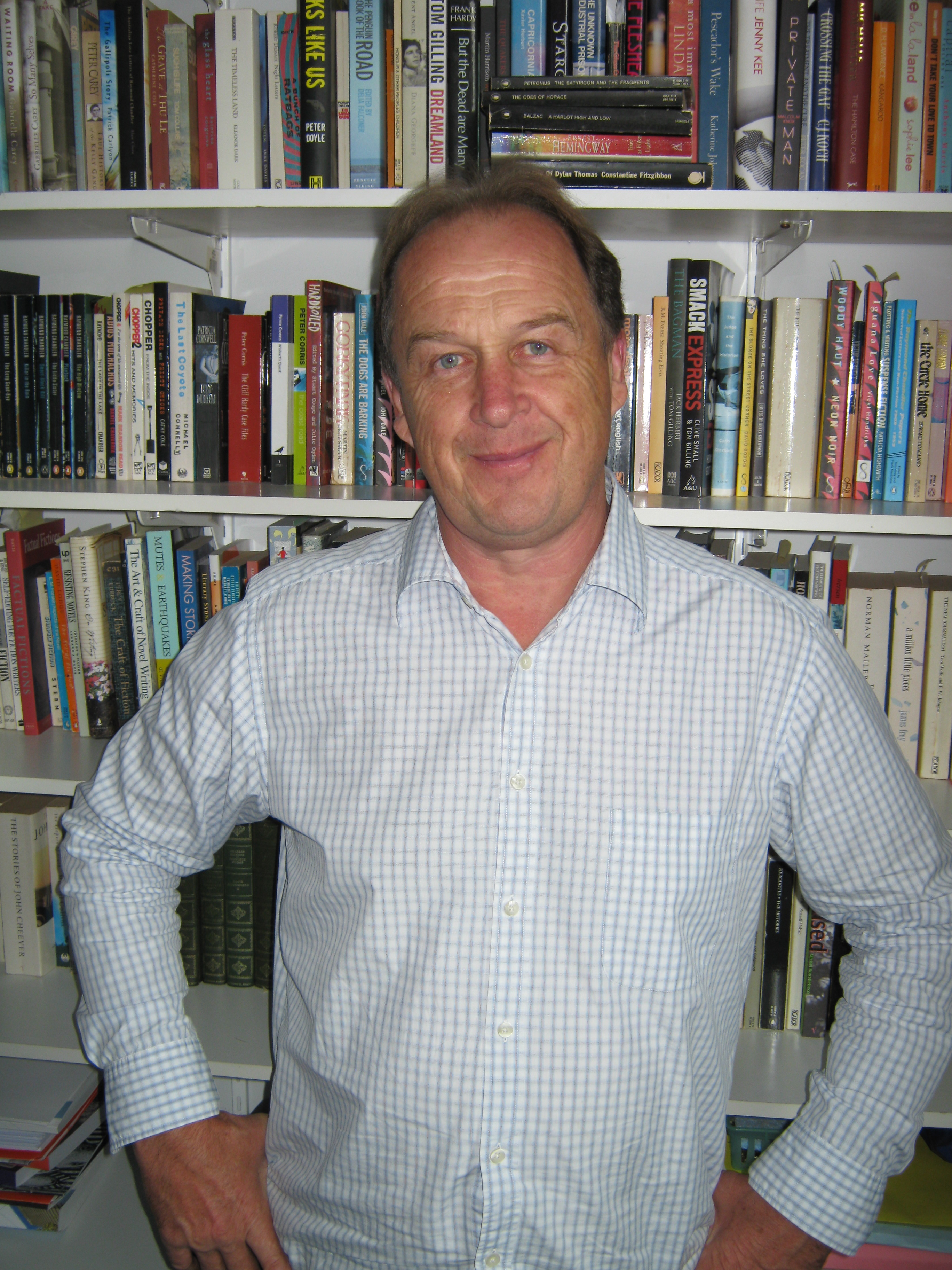 Photo of John Dale